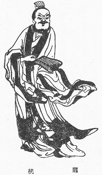 Portrait of the advisor Pang Tong from a Qing Dynasty edition of The Romance of the Three Kingdoms.